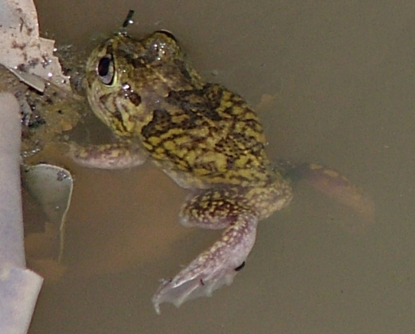 Sudell's Frog (Neobatrachus sudelli), showing metatarsle tubercle.